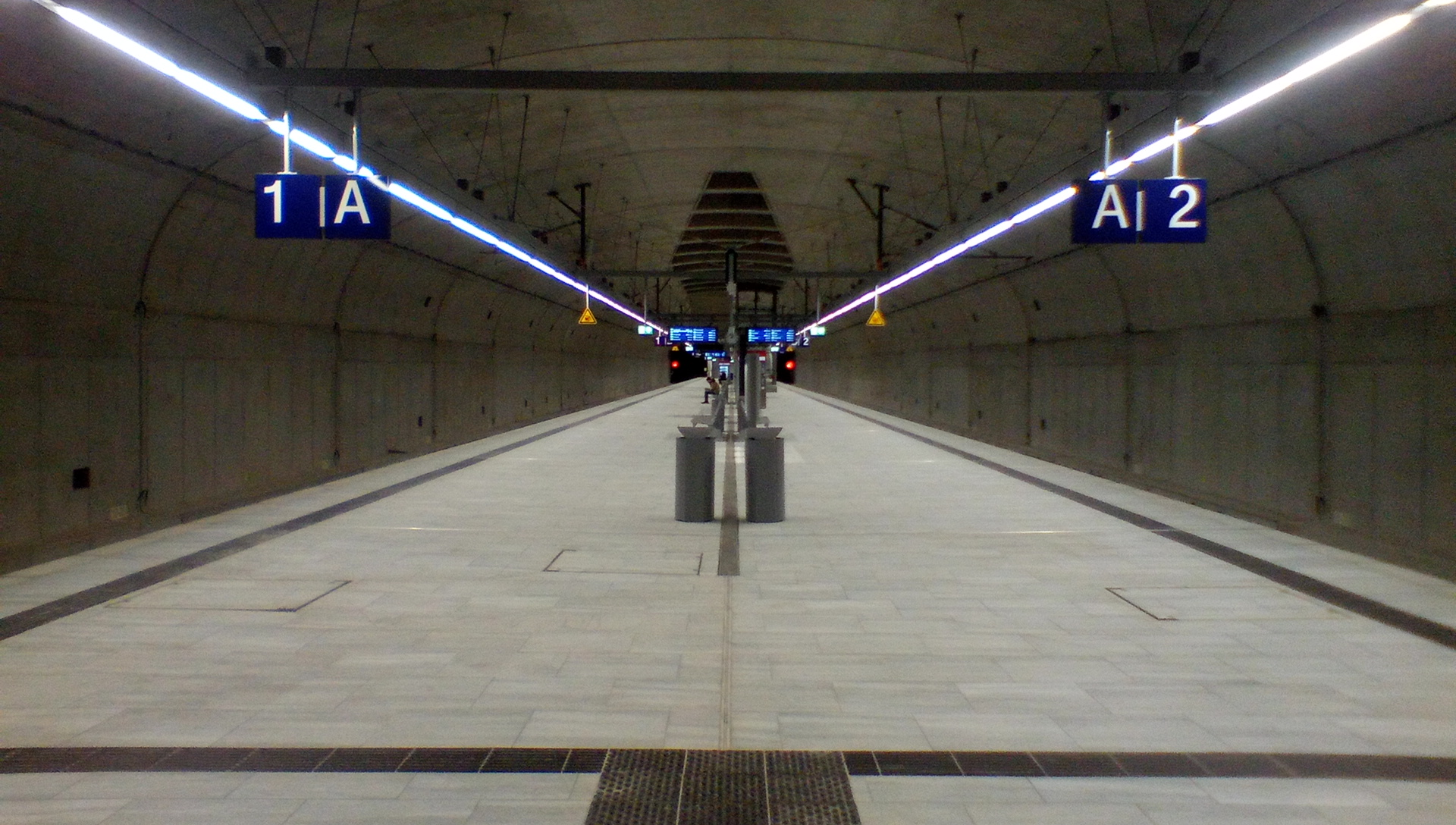 Frankfurt Gateway Gardens station platforms looking eastwards with platform 1 (for Frankfurt Airport Regional station) on the left and platform 2 (for Frankfurt) on the right. This was the opening night, after the first pair of trains had departed.